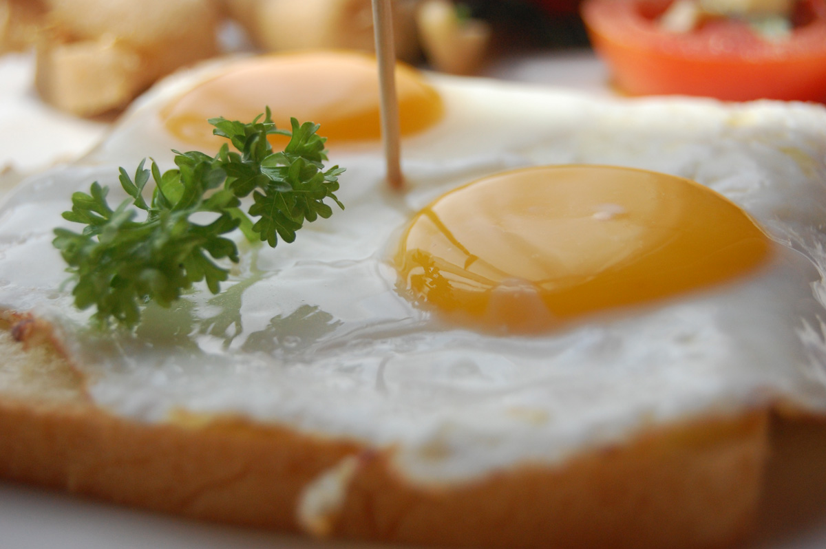 Eggs, sunny side up, on a toast